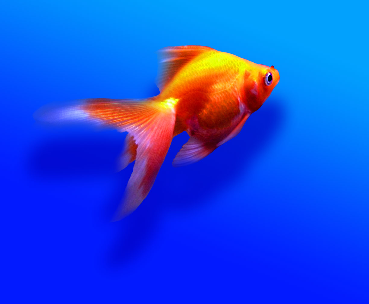 Fantail Goldfish